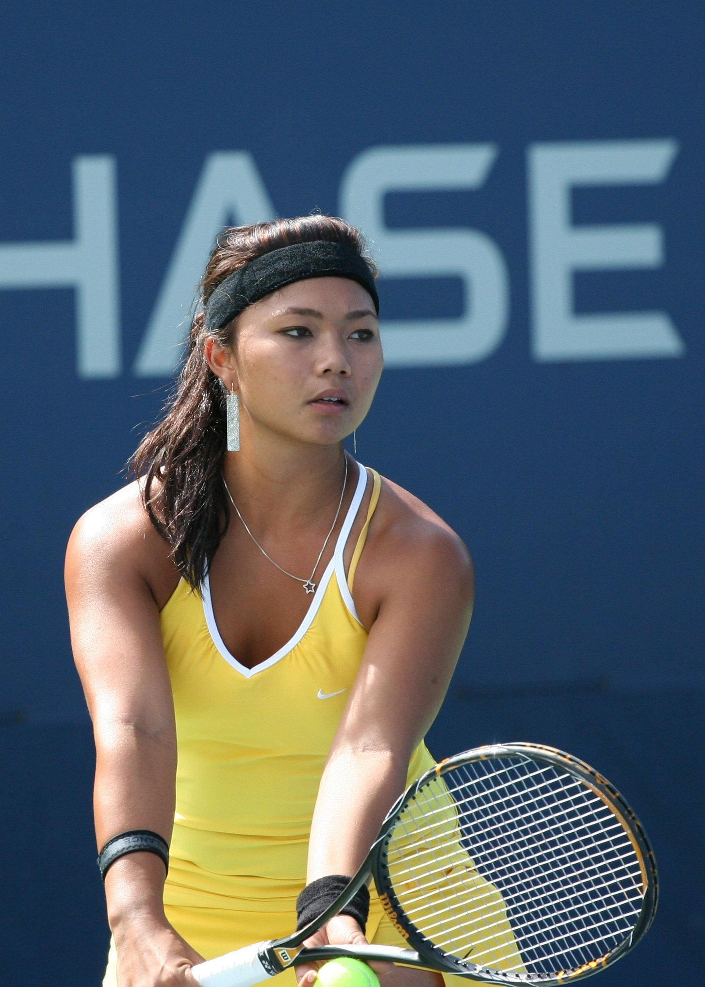 U.S. Open Thursday, Sept. 3, 2009